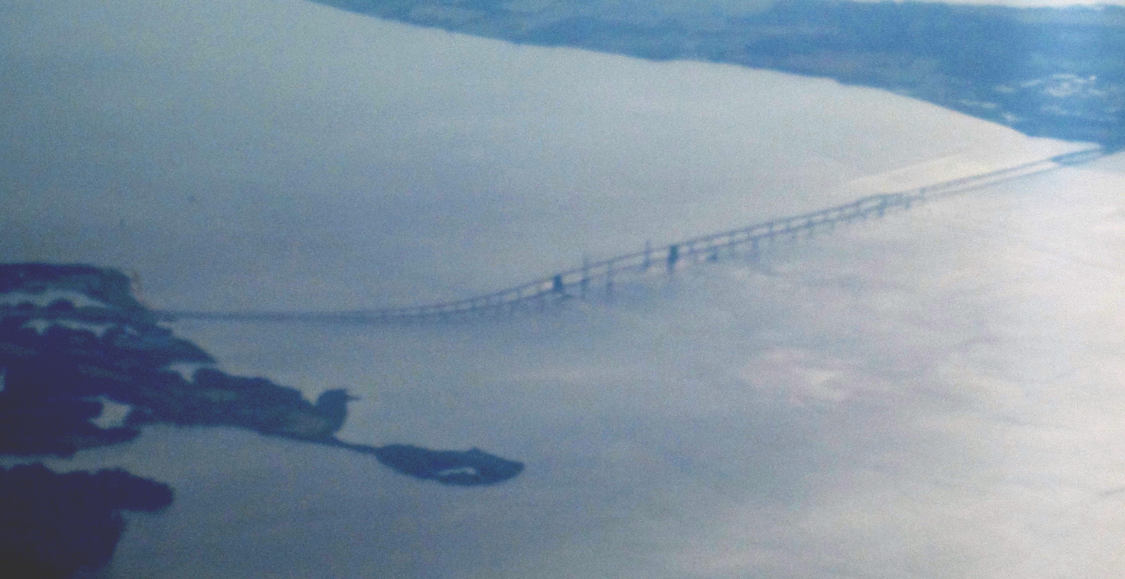 A view of the Chesapeake Bay Bridge from an Embraer E-190 at cruising altitude.